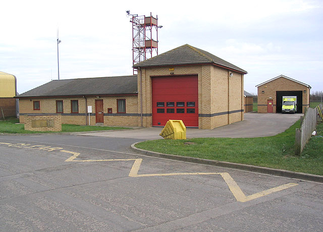 Amble Fire Station Located in Amble Industrial Estate with an ambulance building behind.